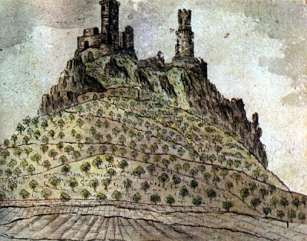 Castle Hazmburk, Czech Republic